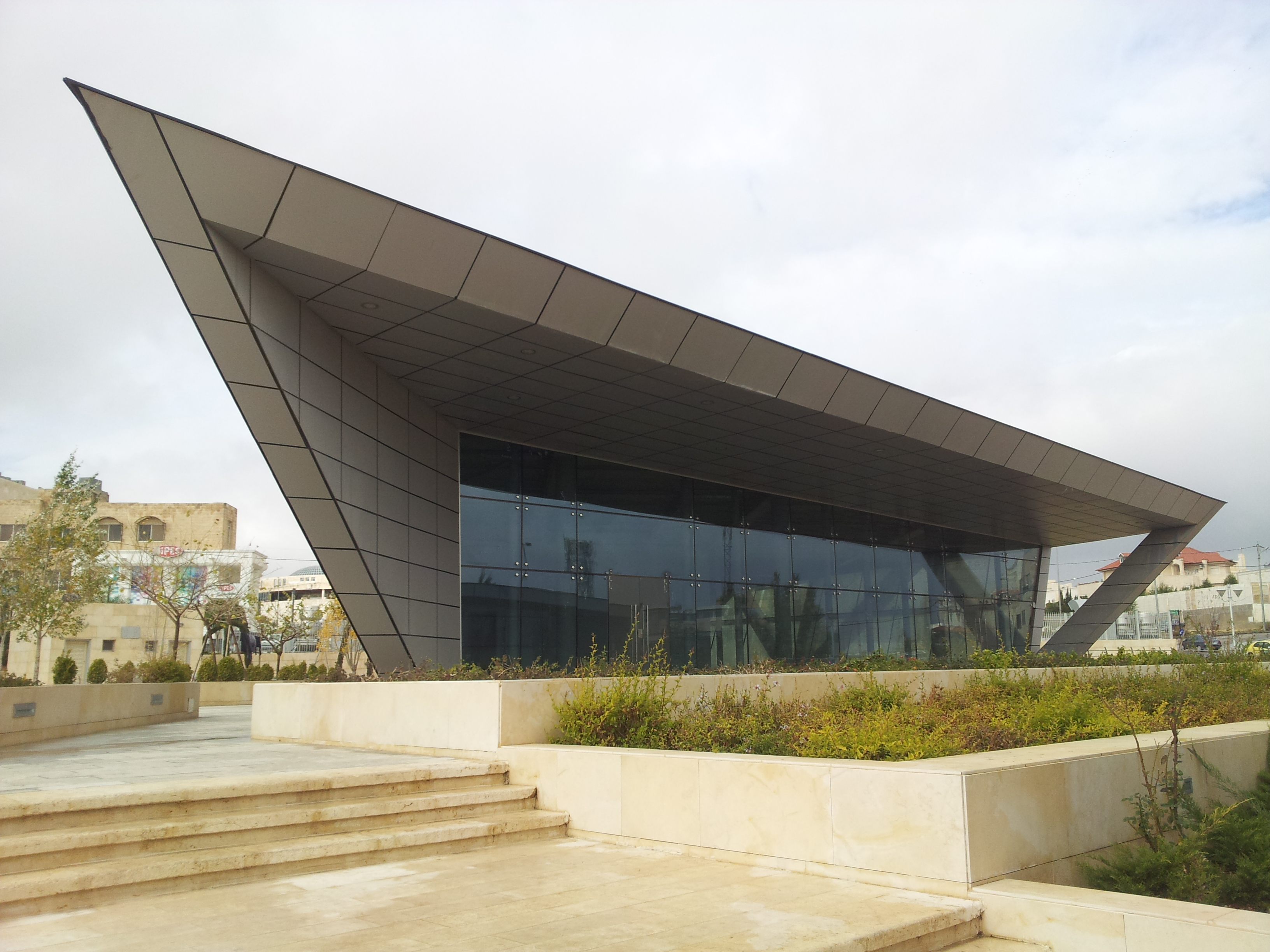 Abdoun Park and Gallery, Amman, Jordan